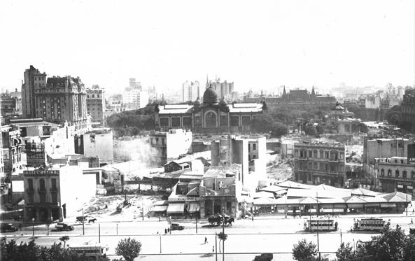 Demolition works of several buildings on Paseo de Julio (current Leandro N. Alem Avenue) between San Martín and Maipú streets. The works were made to expand the park, including the ravine. The Argentine Pavilion built for the Exposition Universelle of 1889 in Paris and then placed at Plaza San Martín in 1894. It served as National Museum of Arts from 1910 to 1934.